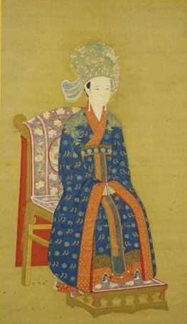 The Official Imperial Portrait of Song Dynasty's Empresses